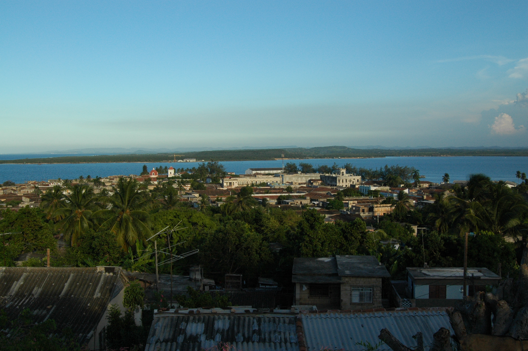 A Panoramic view of the town of Gibara, Holguín Province, Cuba.